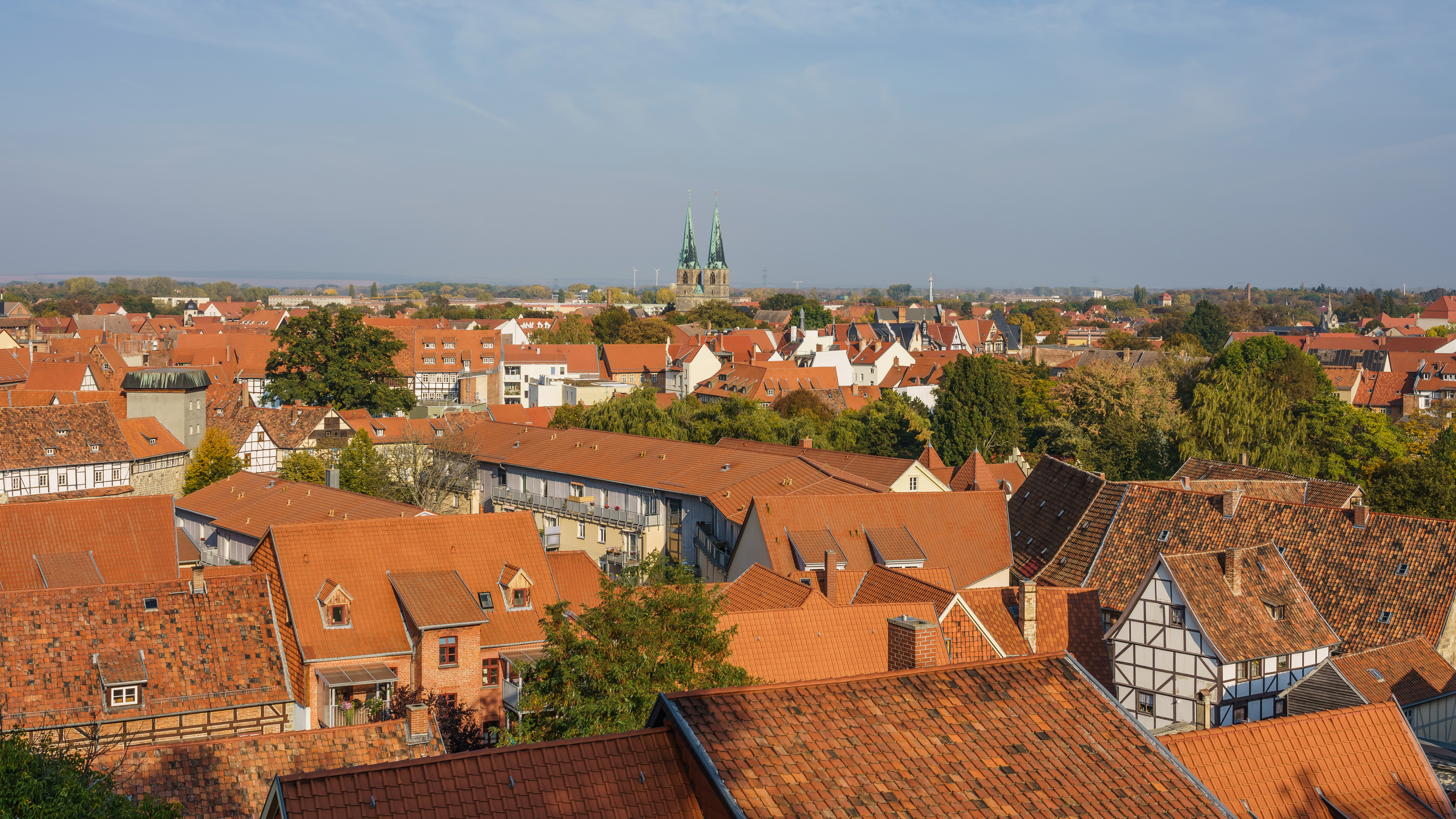 Old Town in Quedlinburg, Germany